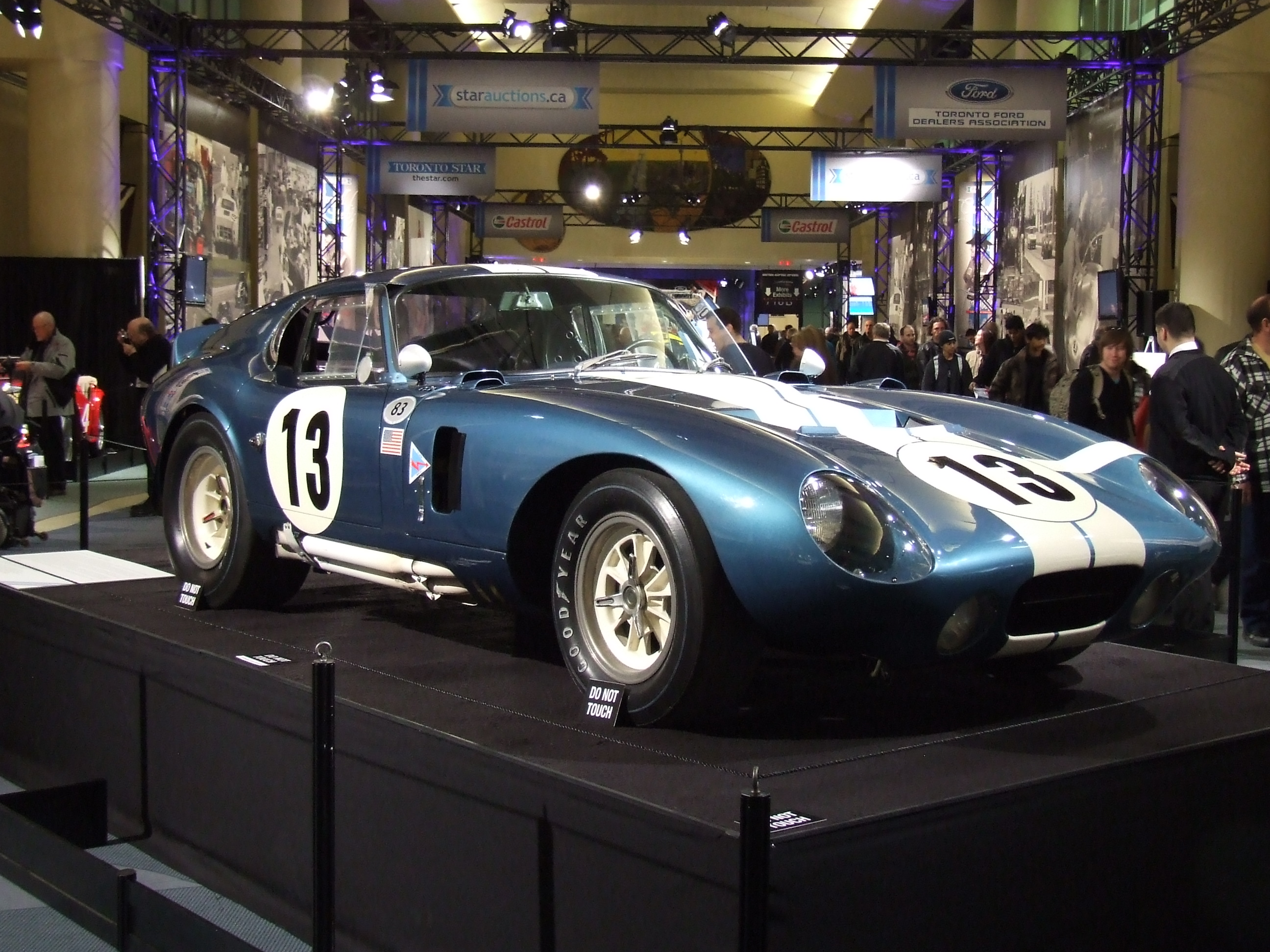 1964 Shelby Daytona Cobra Coupe (CSX2299), 2010 Canadian International AutoShow.